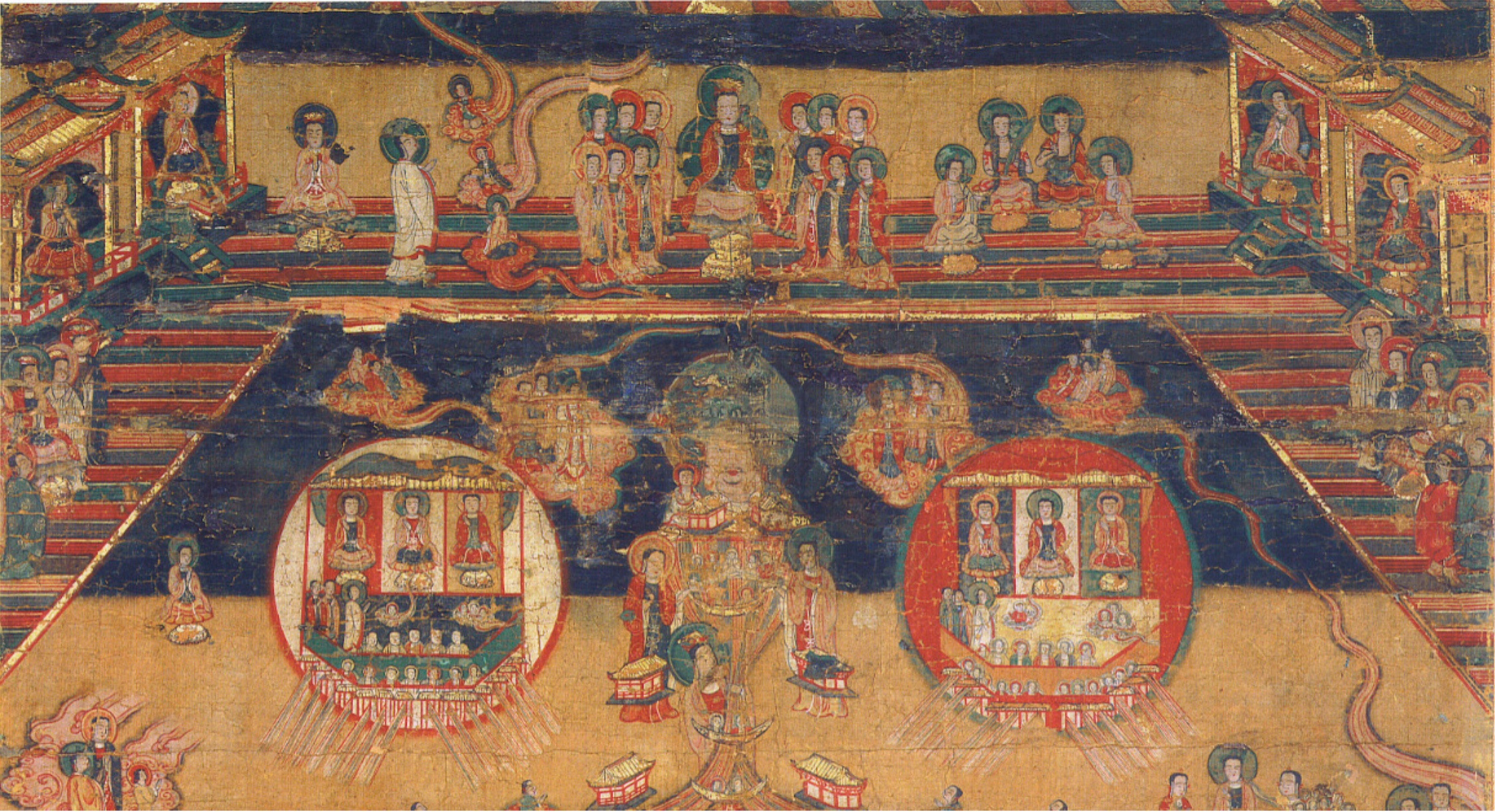 The New Aeon and Liberation of light, that is, triad of the Sun, Moon and a third divine figure between them (Yoshida and Furukawa 2015, Plate 5).